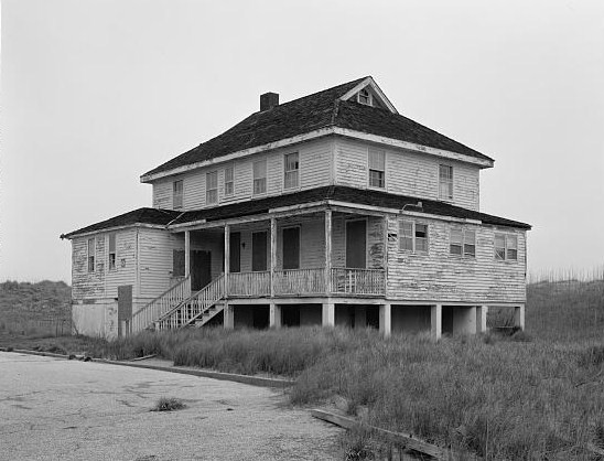 The Bodie Island Lifesaving Station — off Highway 12, Nags Head vicinity (Dare County, North Carolina). 2000 photo from the HABS—Historic American Buildings Survey images of North Carolina (cropped).